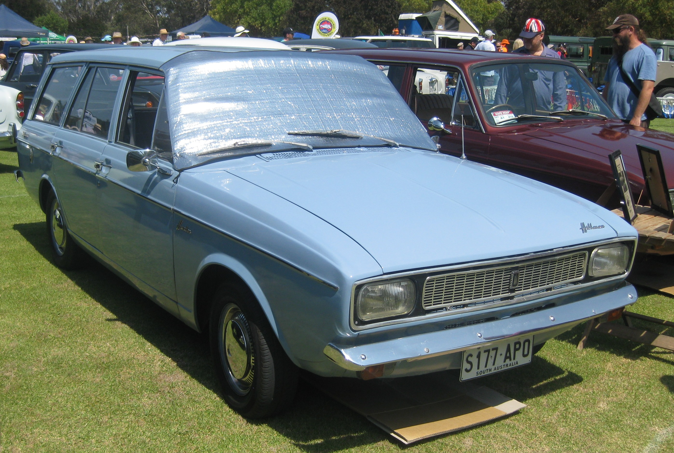 Australian built Hillman Hunter Safari (HC series, 1968-70)